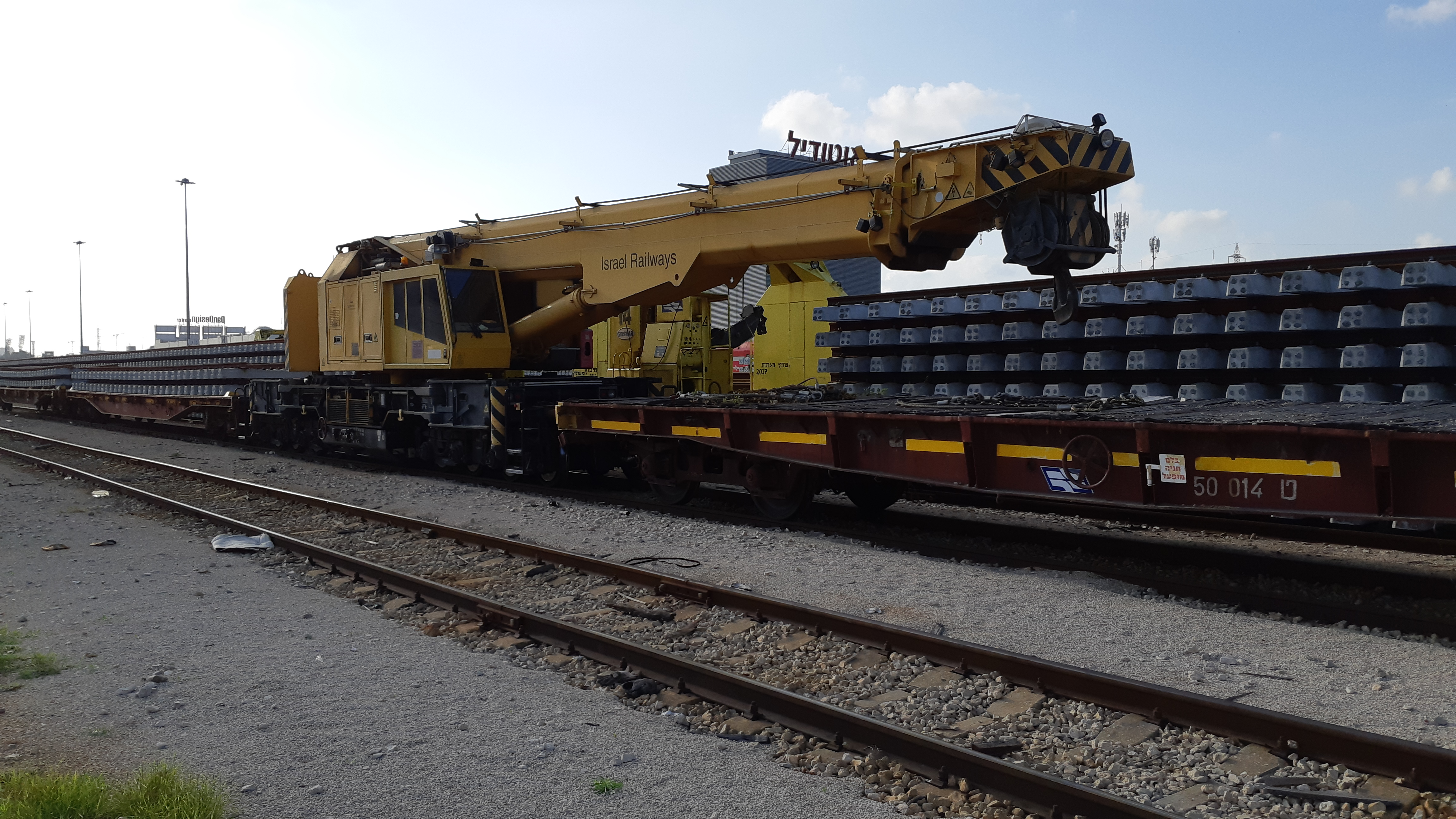 Kirow rail crane 810T No. 918 of Israel Railways. Forward side.